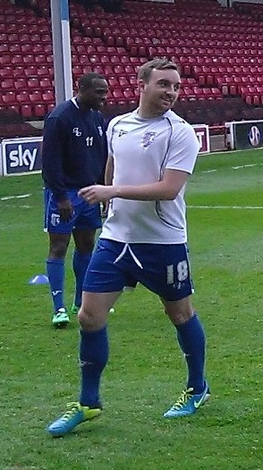 Charlie Lee warms up before the Walsall F.C. vs Gillingham F.C. game today.